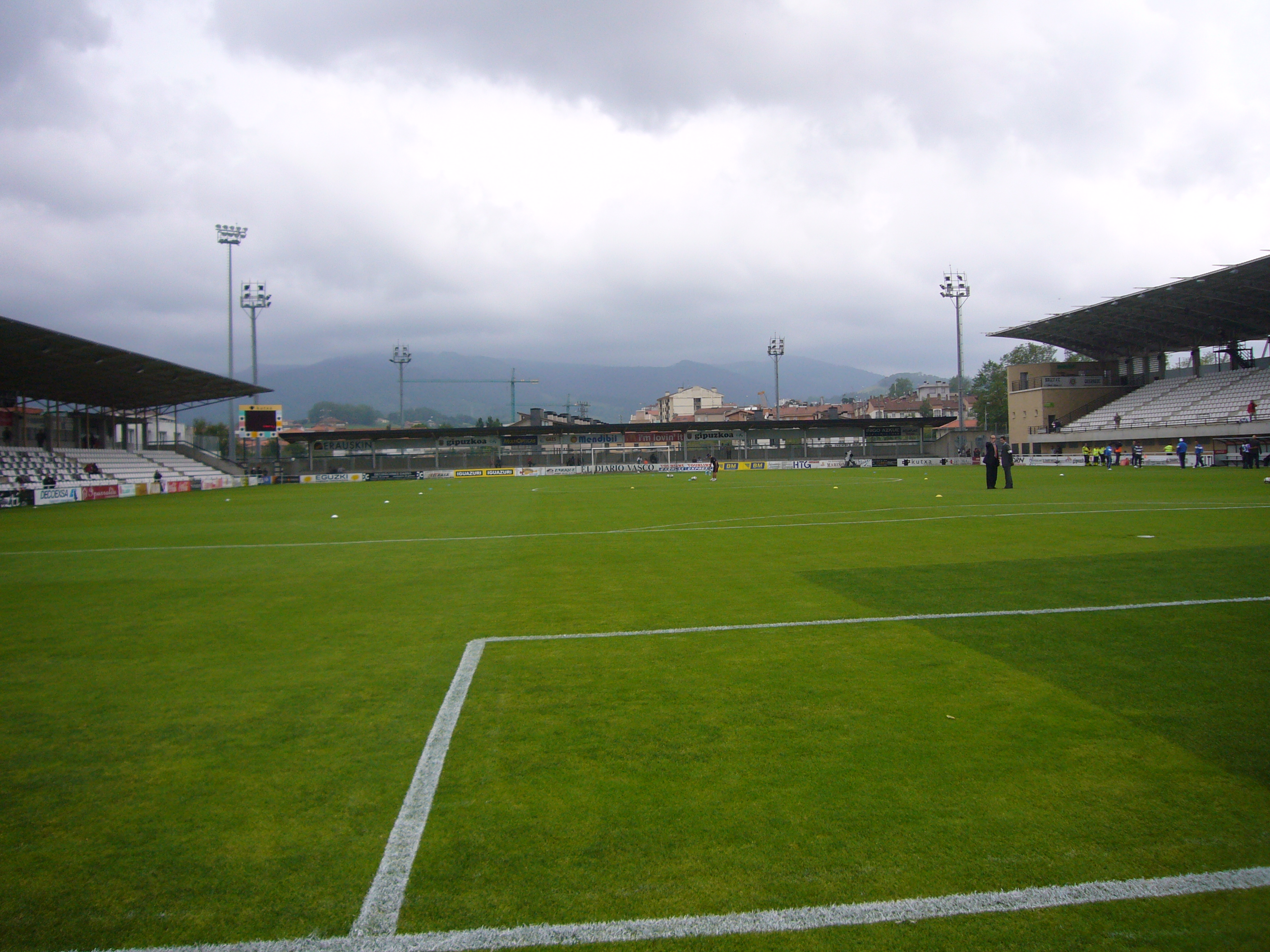 Gal Stadium View from the north end.